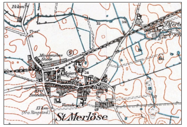 Store Merløse i mellemkrigstiden